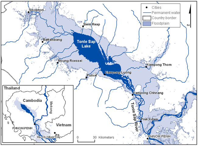 Map of Tonlé Sap lake and river, and drainage basin (watershed), in Cambodia. Tributary of the Mekong river. GIS data used in the map from Mekong River Commission. Map done by using ArcGIS. File type: PNG-8.